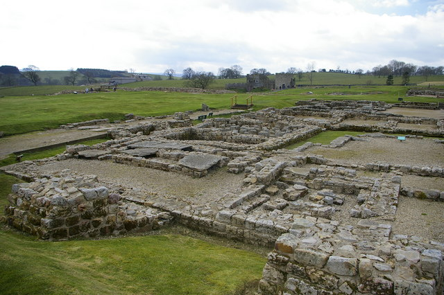 House of the commander with bath, Vindolanda Roman Fort The stone fort at Vindolanda was built to house the Fourth Cohort of Gauls who moved to Vindolanda after AD 212. This was Vindolanda's third stone fort; there had also been five timber forts.